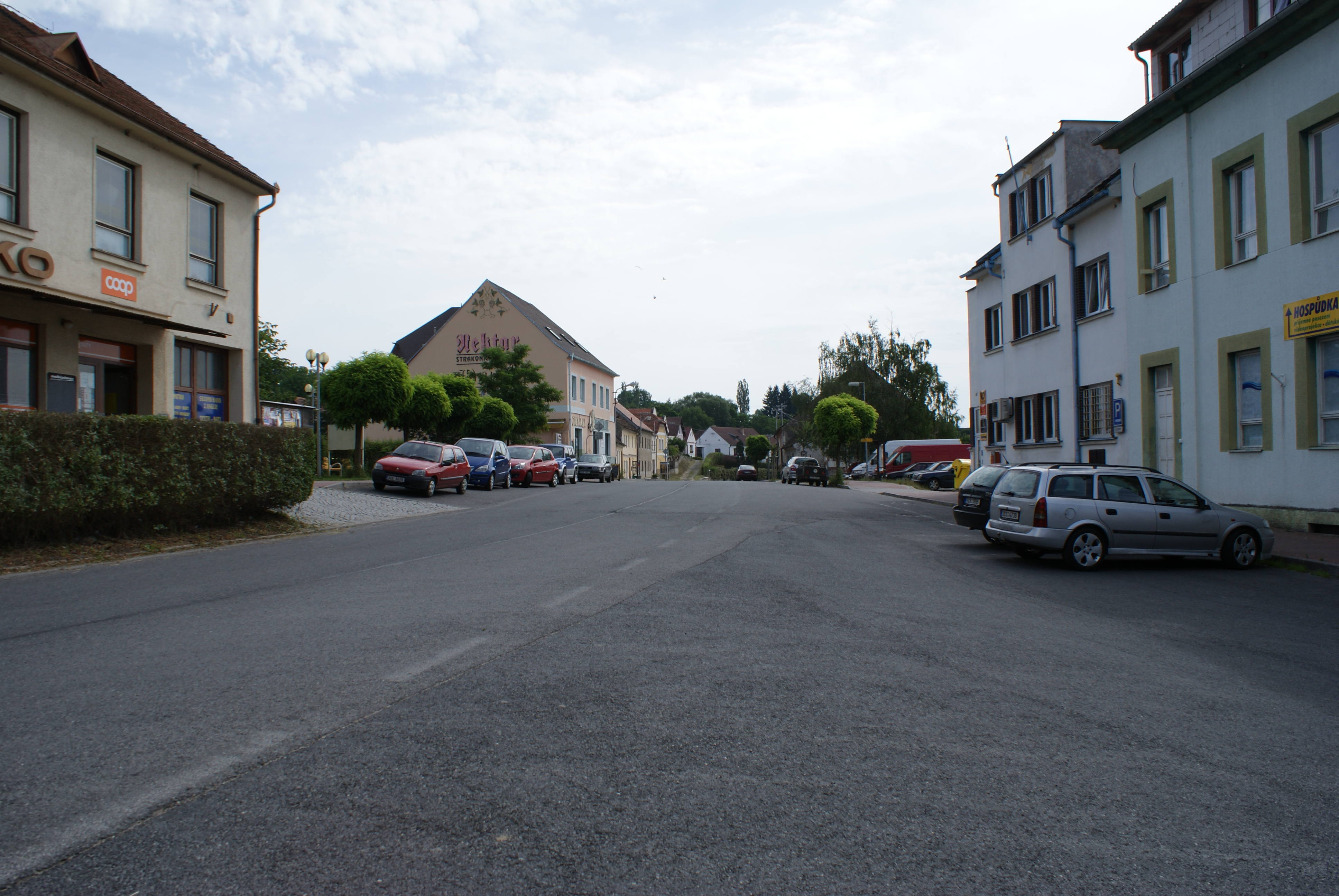 Štěkeň, a small town in Strakonice district, Czech Republic, a view of the square. Česky: Štěkeň, okres Strakonice, pohled na náměstí